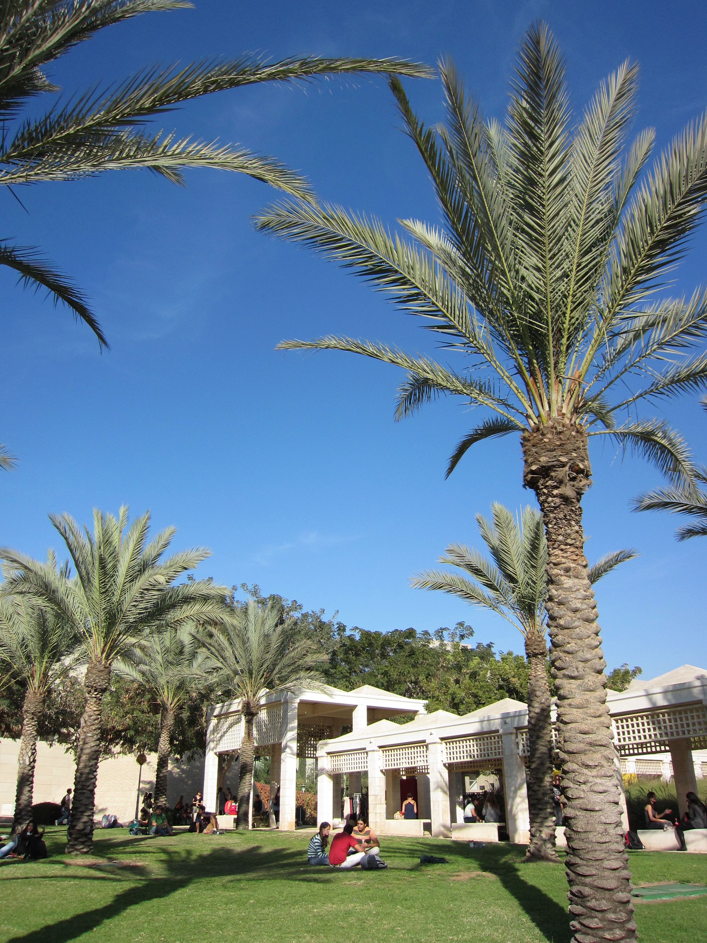 Ben Gurion University of the Negev (Photo: David Saranga)